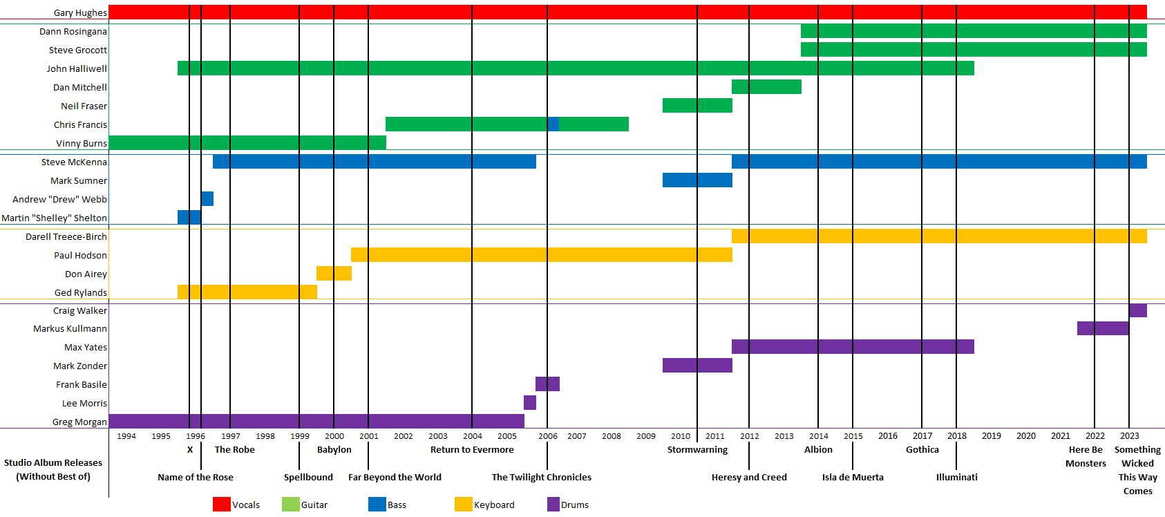 This is an overview over the lineup changes for the band Ten